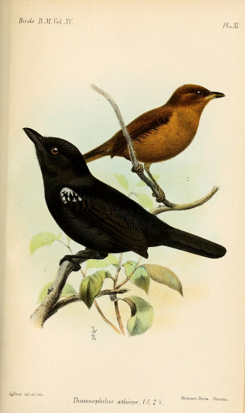 Thamnophilus aethiops, White-shouldered Antshrike